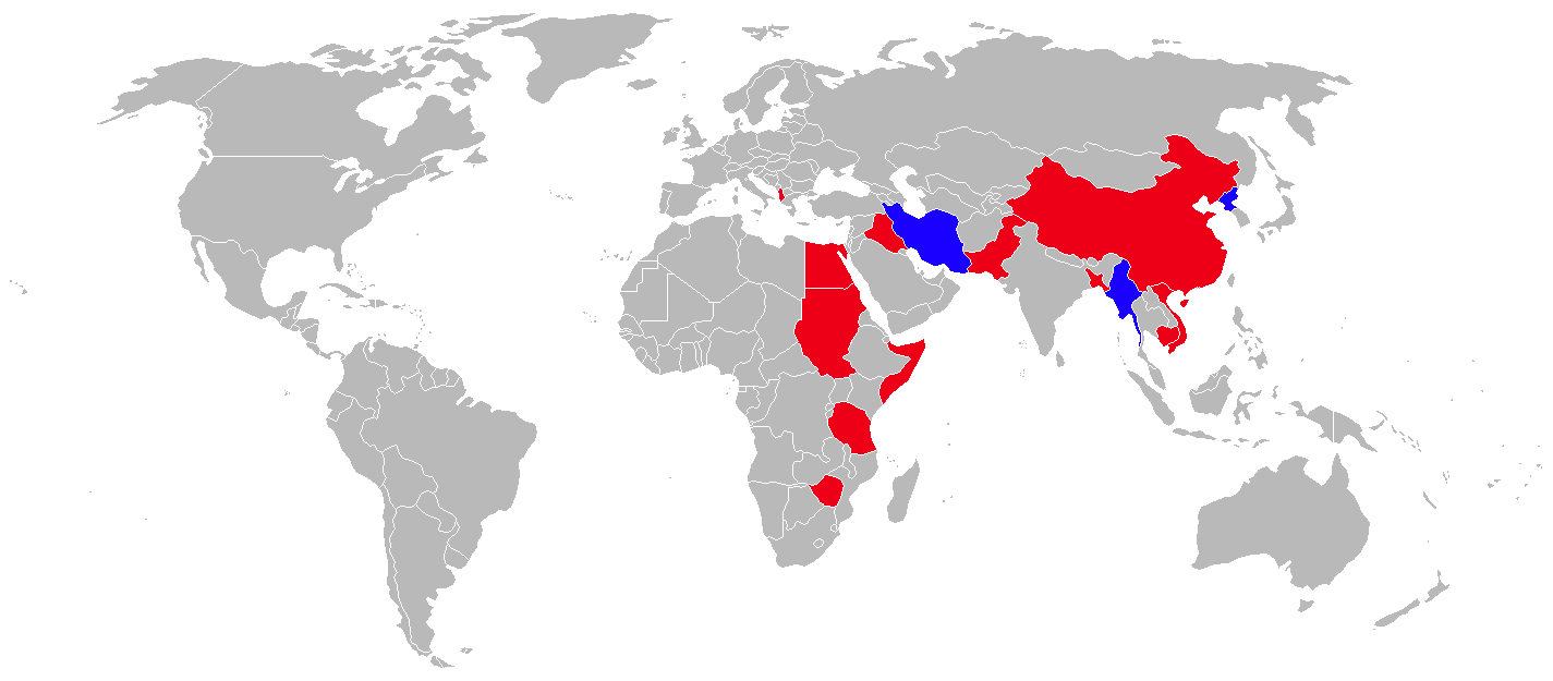 Shenyang J-6 Operators (former operators in red)